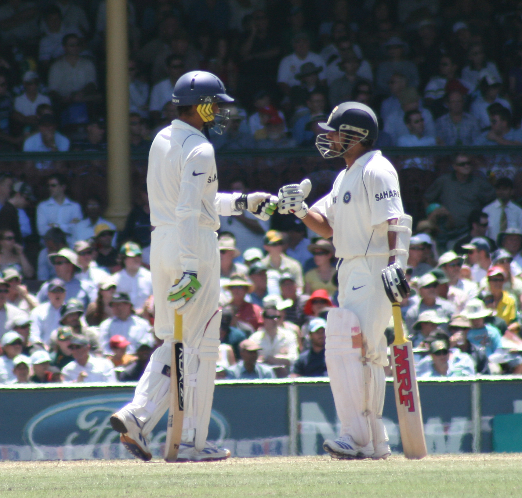 Sachin Tendulkar and an Indian teammate support each other mid-innings Taken at SCG, 3rd Day, Australia vs India, 4th Jan 2008